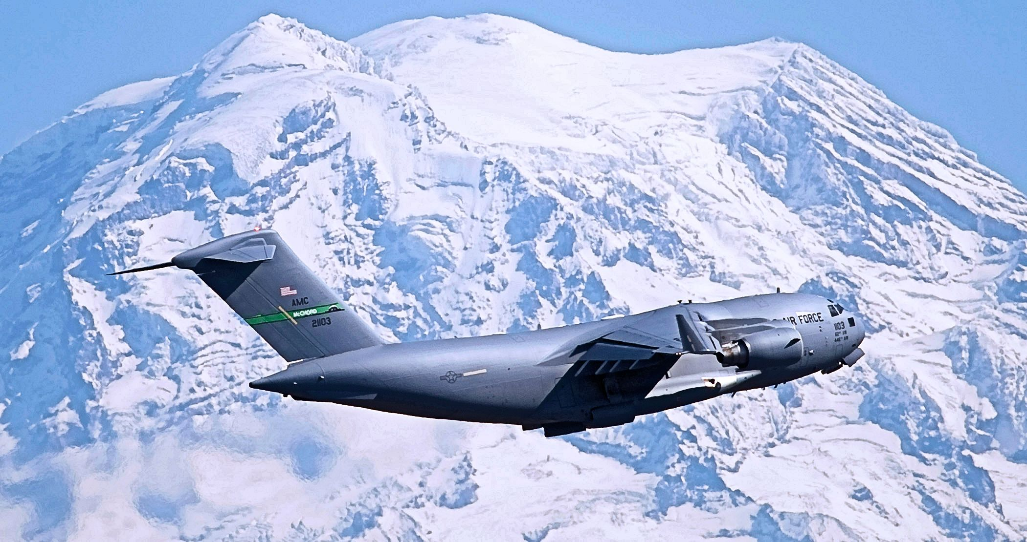 JOINT BASE LEWIS-MCCHORD, Wash., - This month of December the C-17 Globemaster III celebrated its two millionth flight hour. Of those two million hours, the 446th Airlift Wing has flown 194,202 hours in the C-17. (U.S. Air Force photo/Abner Guzman)